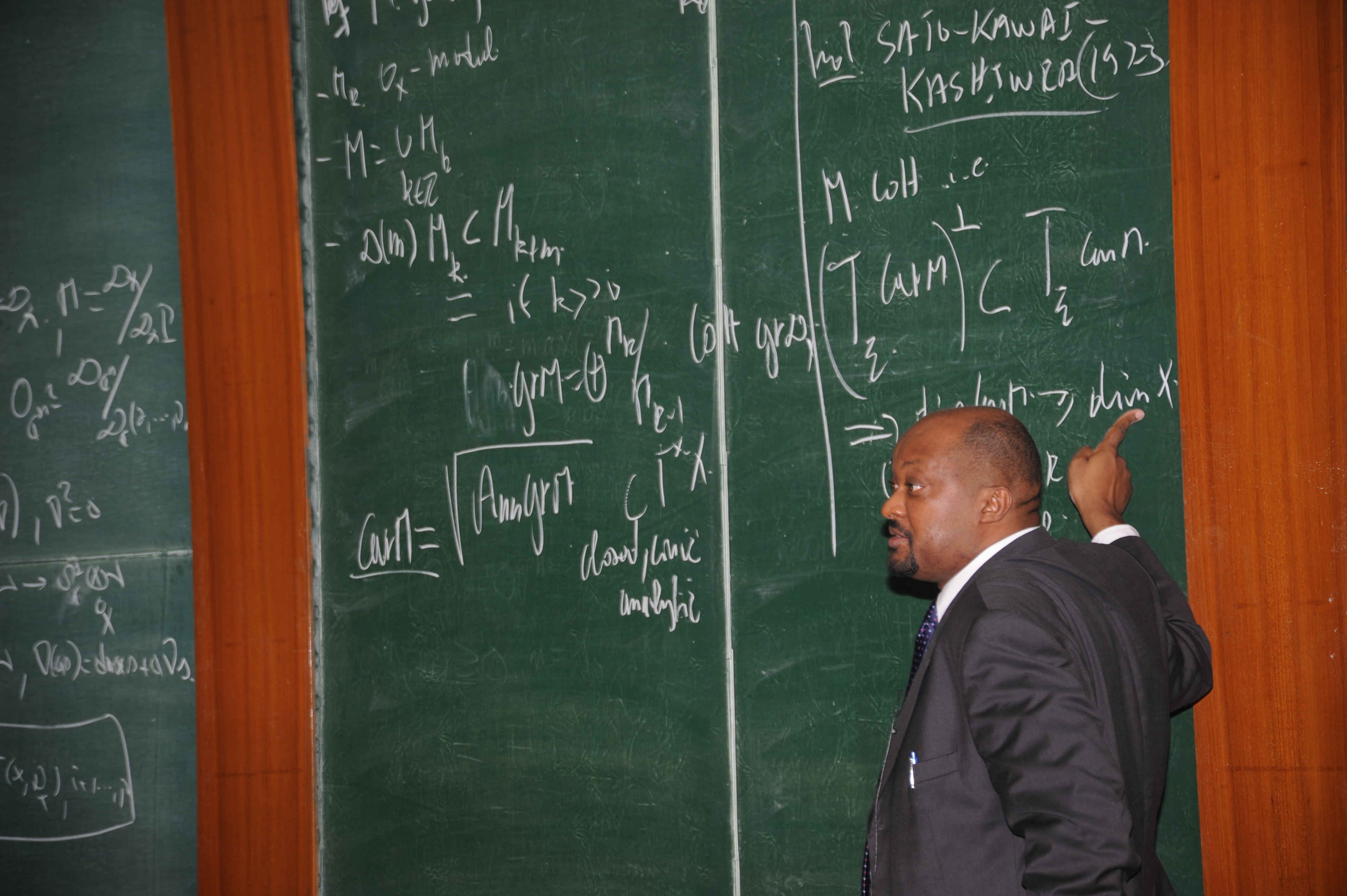 The Gabonese mathematician Philibert Nang during a lecture at the Tata Institute of Fundamental Research in Mumbai, India. At the event he was awarded the ICTP Ramanujan Prize.